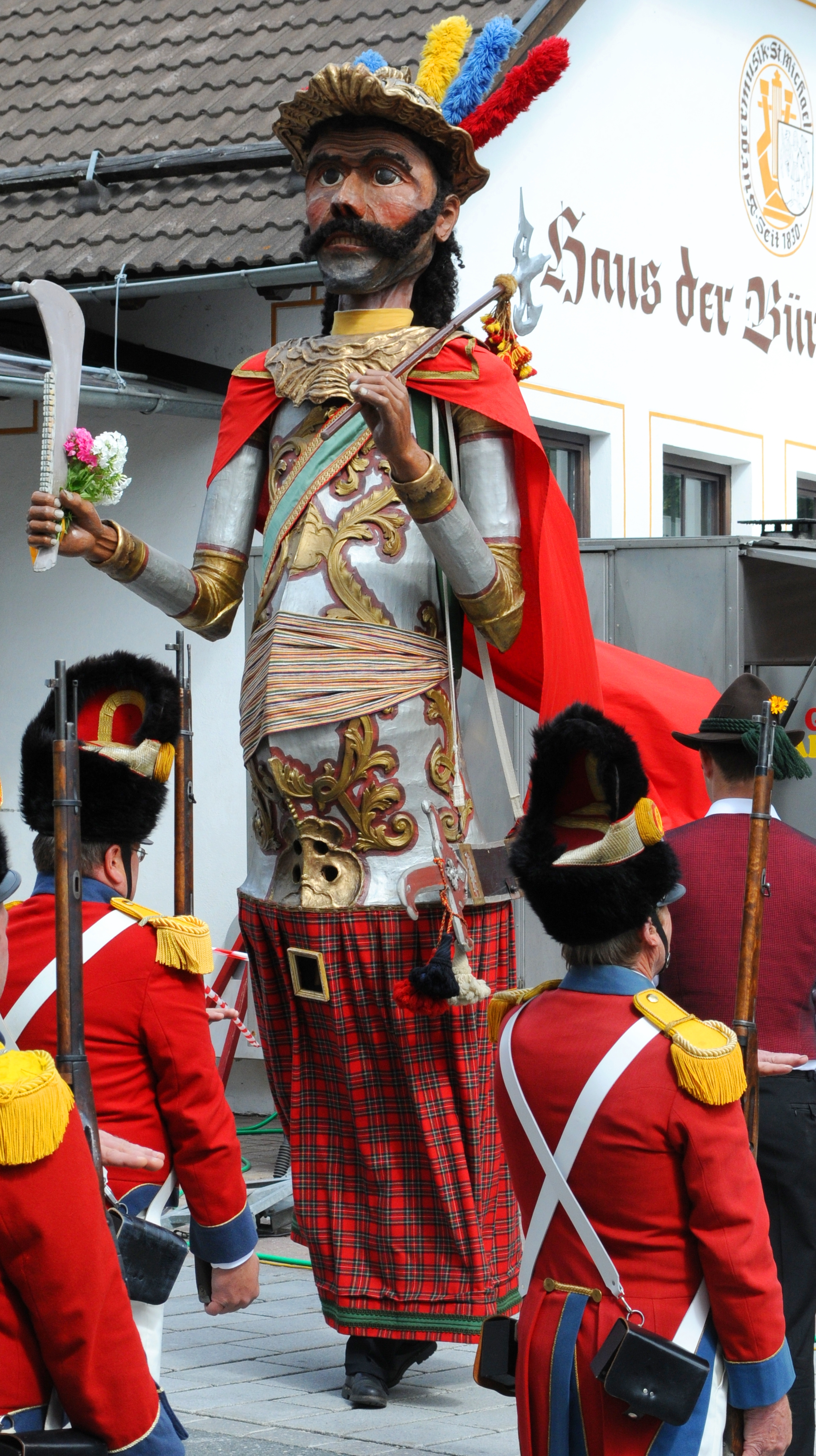 St. Michael im Lungau - Samson parade